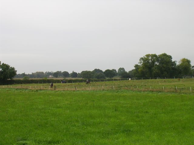 Kenyon. Looking southwest across fields at Kenyon, west of Culcheth. SJ63139575.